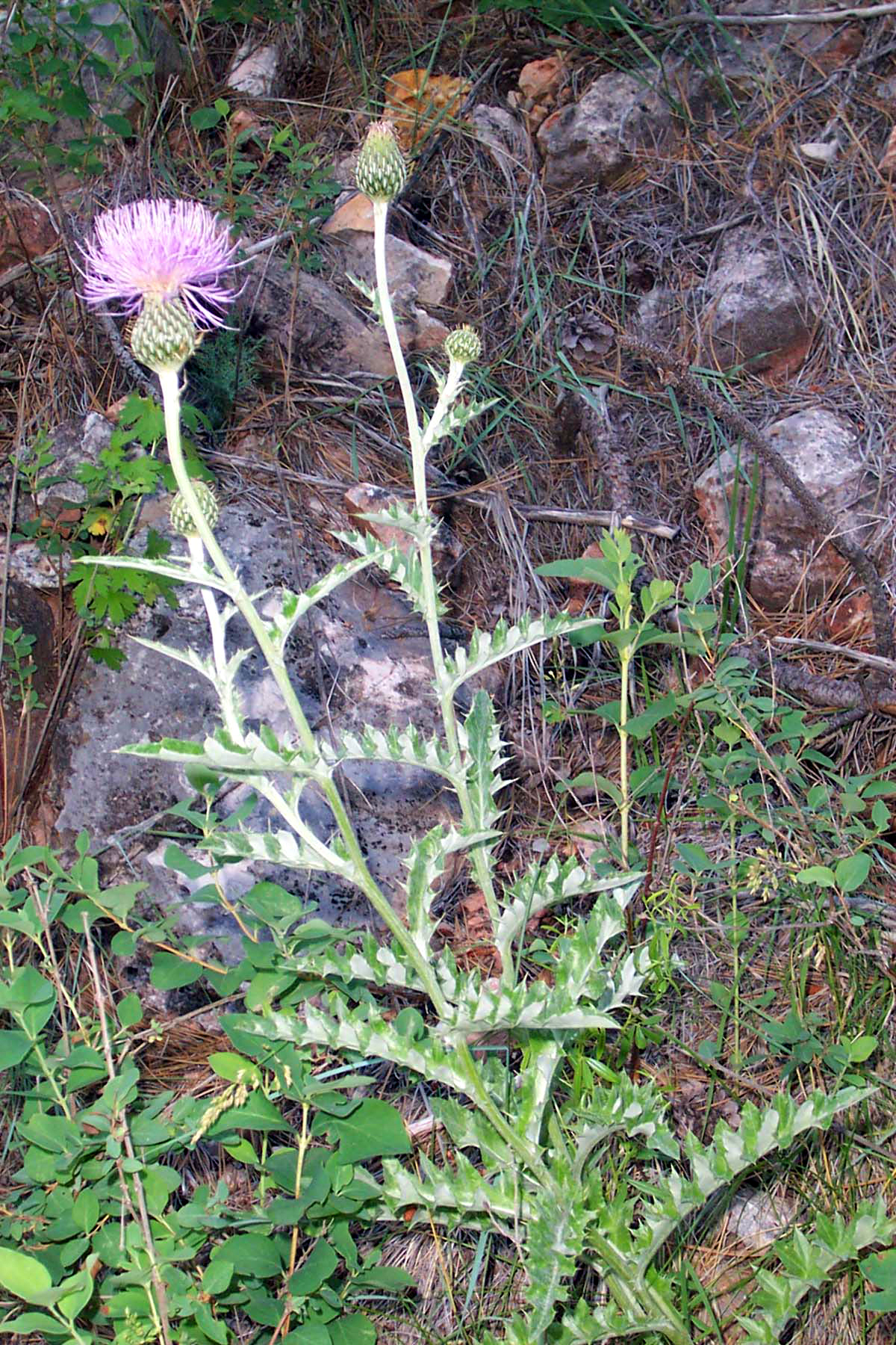 Cirsium flodmanii at Wind Cave National Park, South Dakota, USA